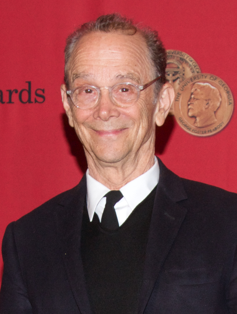 Joel Grey at the 73rd Annual Peabody Awards for "Great Performances: Broadway Musicals: A Jewish Legacy"